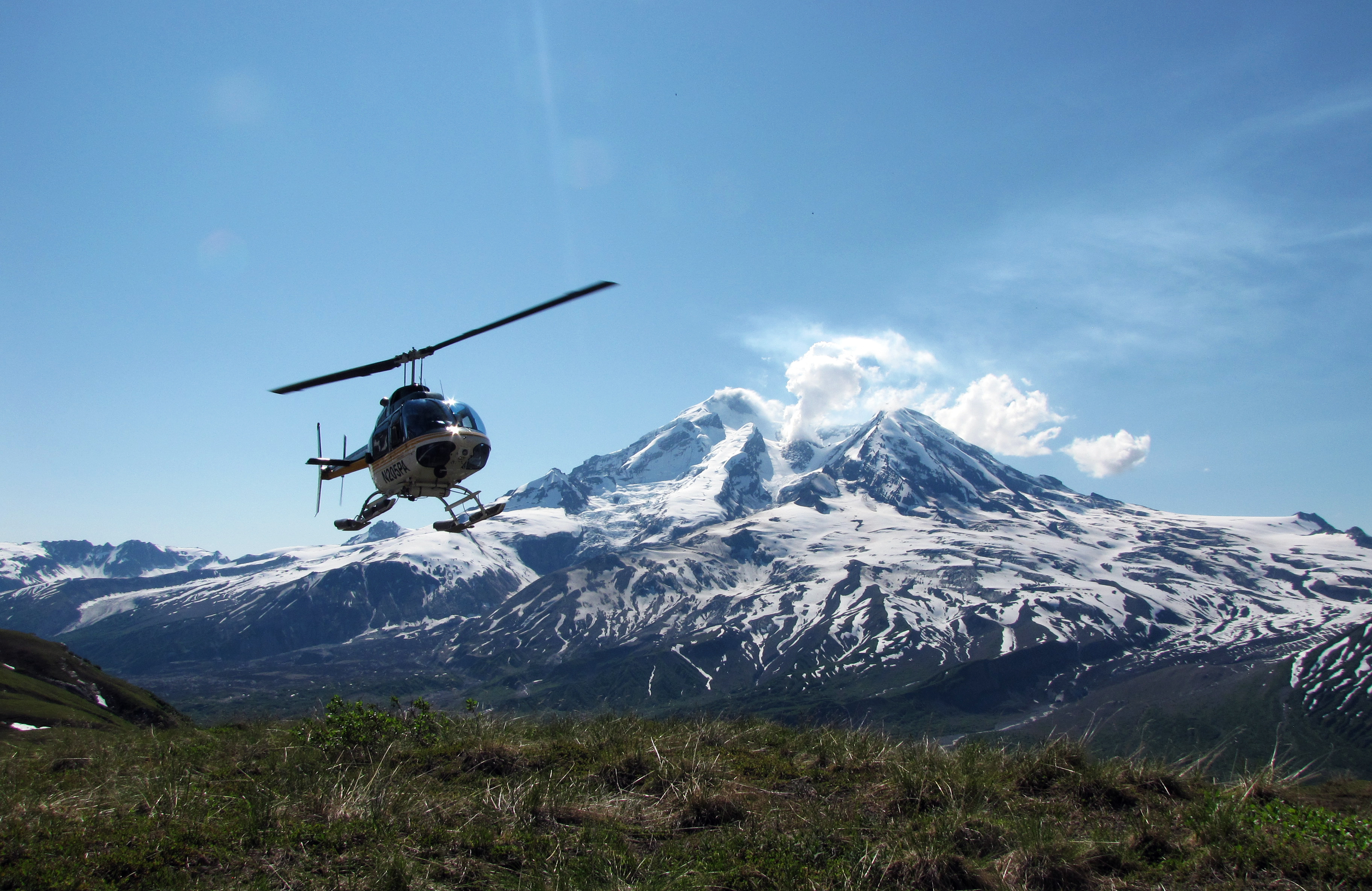 Helicopter arriving to pick up geologists after retrieving geophysical equipment from the flanks of Redoubt Volcano, Aleutian Range, Alaska, July 2015.